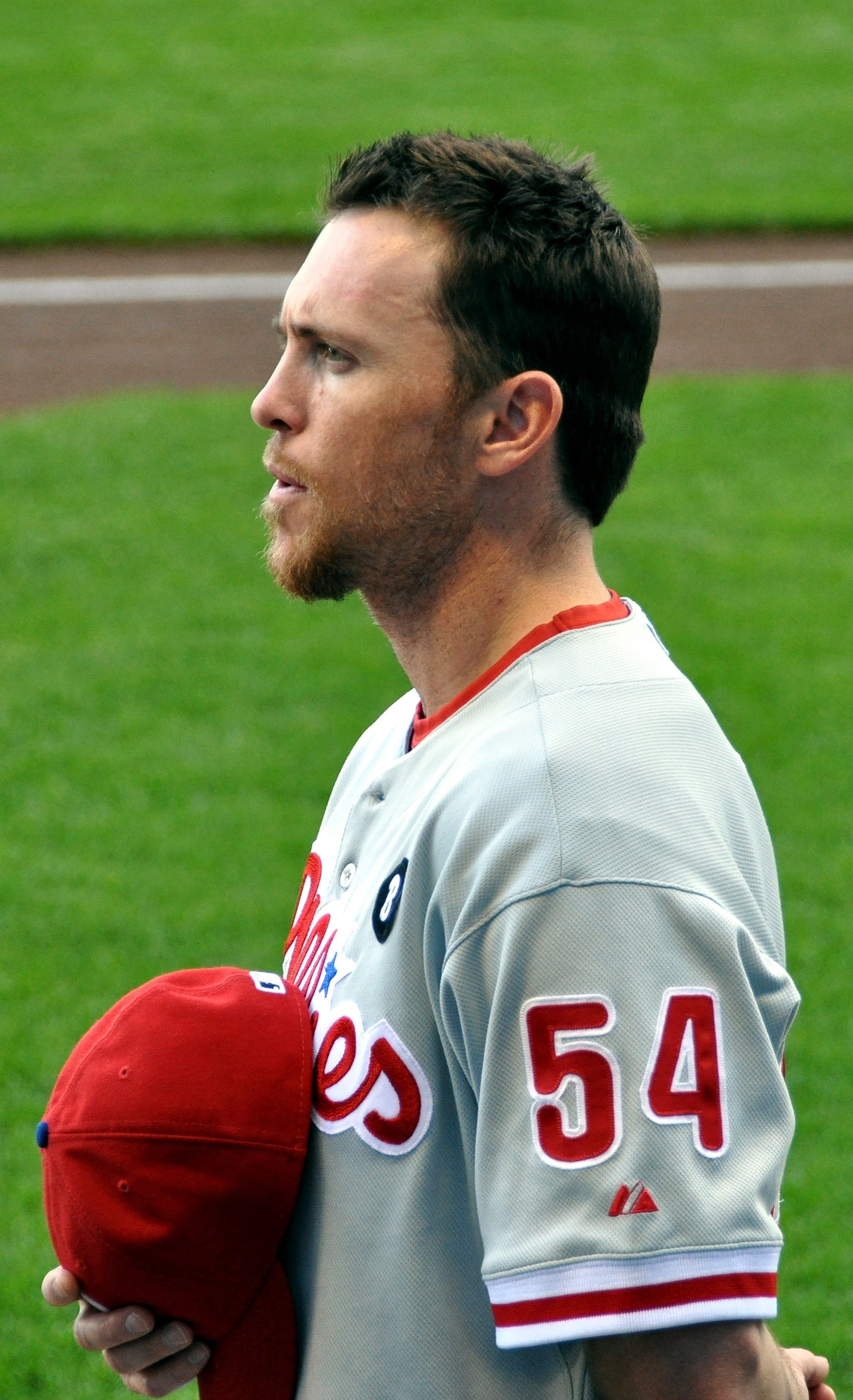 Taken at Miller Park 9/10/11